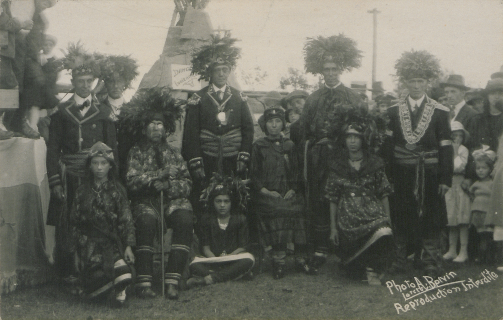 Chief and sub-chiefs of the Hurons of Loretteville (Huron-Wendat Nation at Wendake). Copy depositied: 319F Exhibition Print